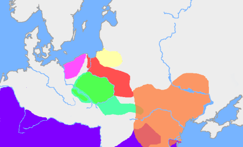 Eastern Europe in the 3rd century CE: Chernyakhov culture Przeworsk culture Wielbark Culture (associated with the Goths) a Baltic culture (Aesti/Yotvingian?) Dębczyn culture Roman Empire